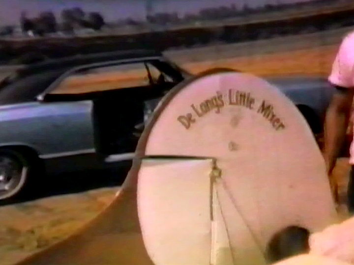 Image of the tail of a home built aircraft, the DeLong's Little Mixer.